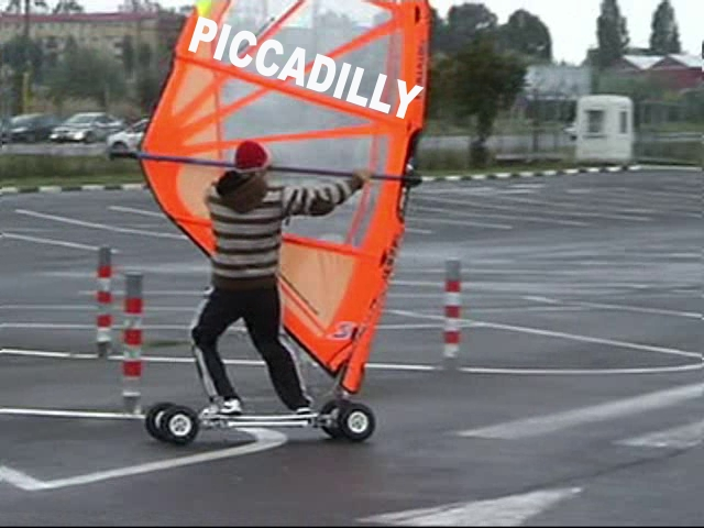 Dyrt windsurfing